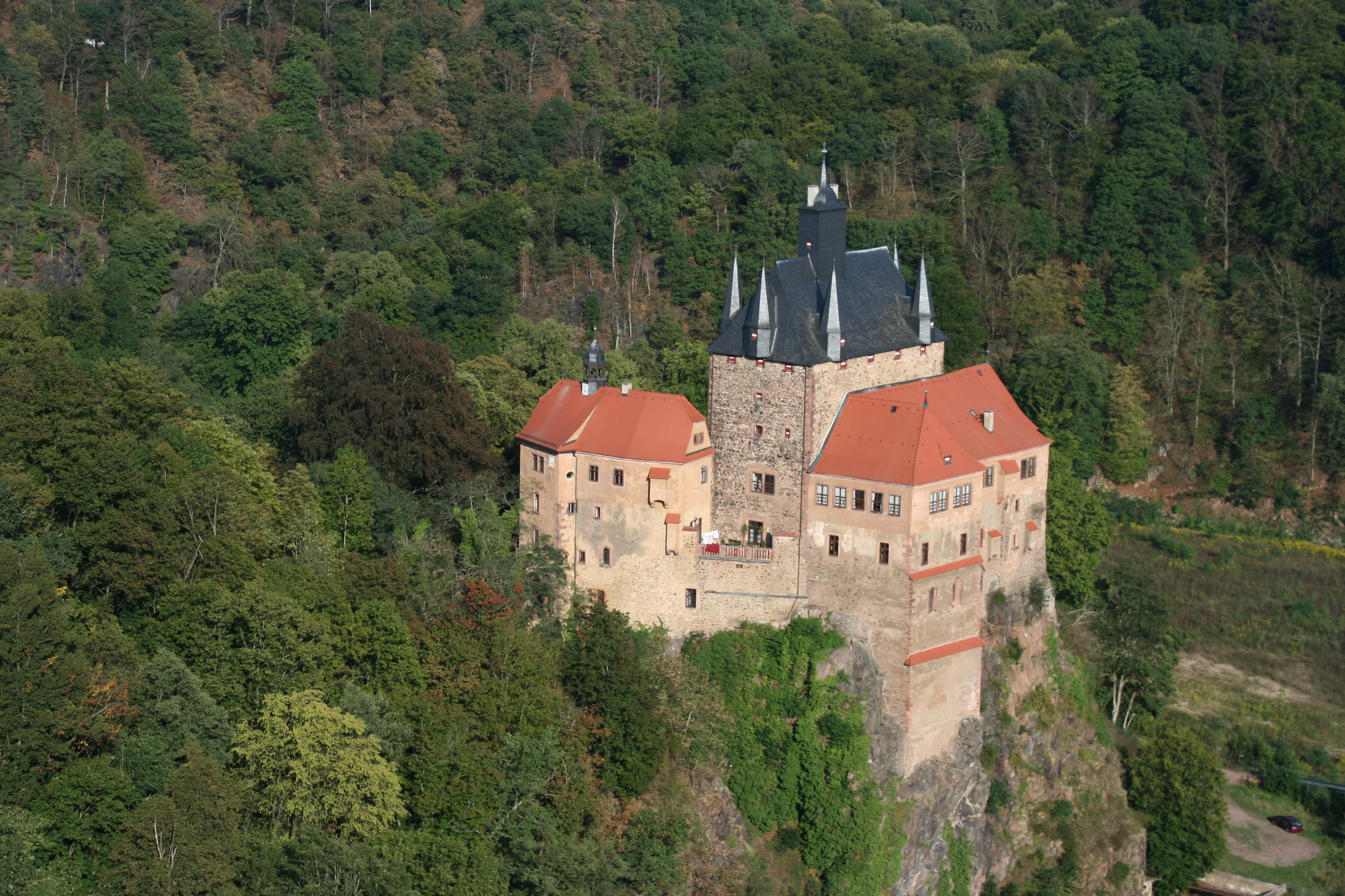 Overlooking the castle Kriebstein